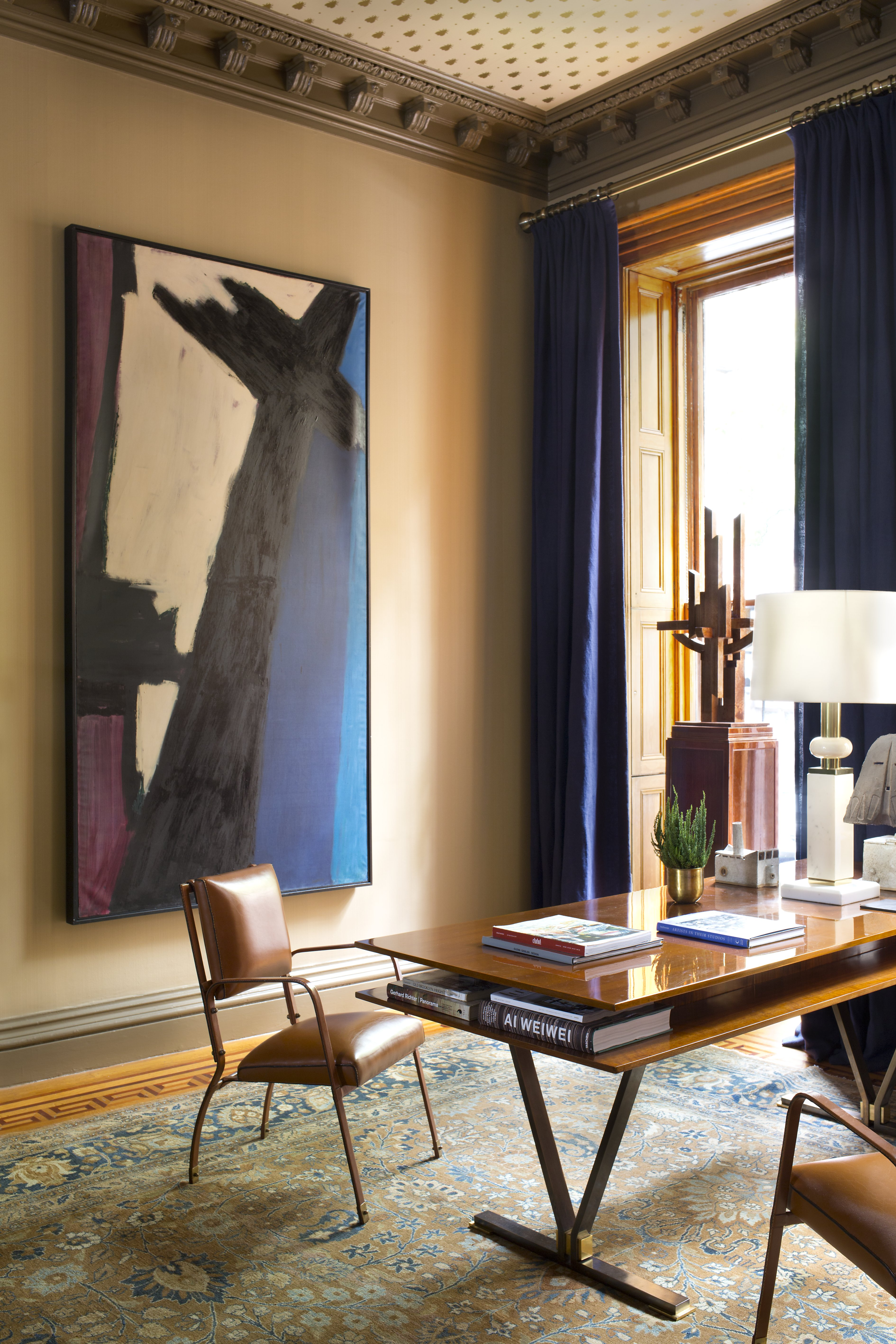 The Brooklyn Heights designer showhouse of American interior designed Glenn Gissler.